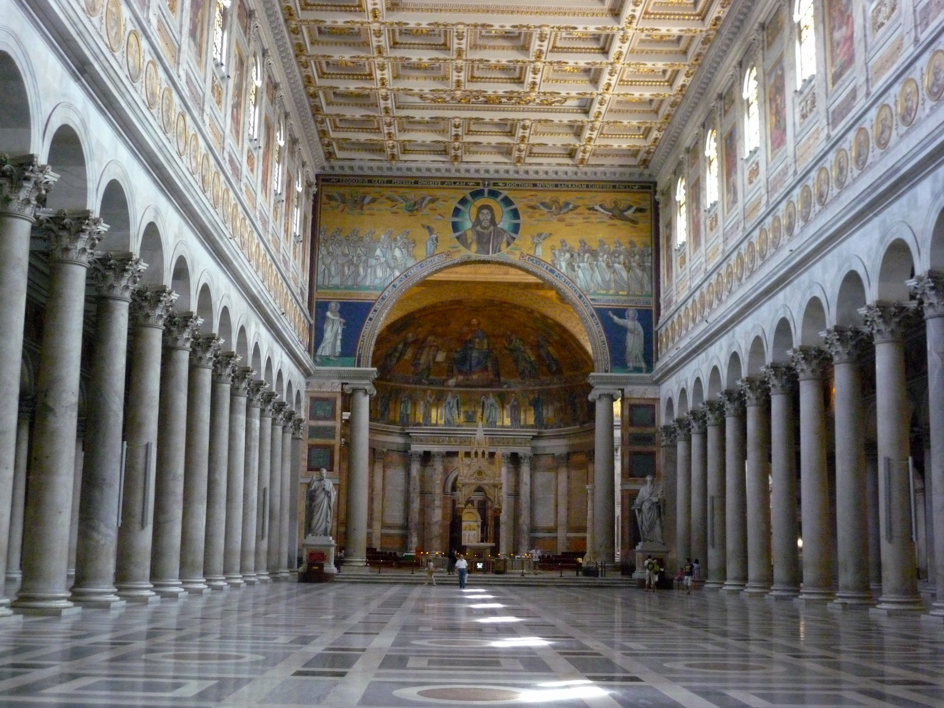 Basilica of Saint Paul Outside the Walls (Rome) - interior